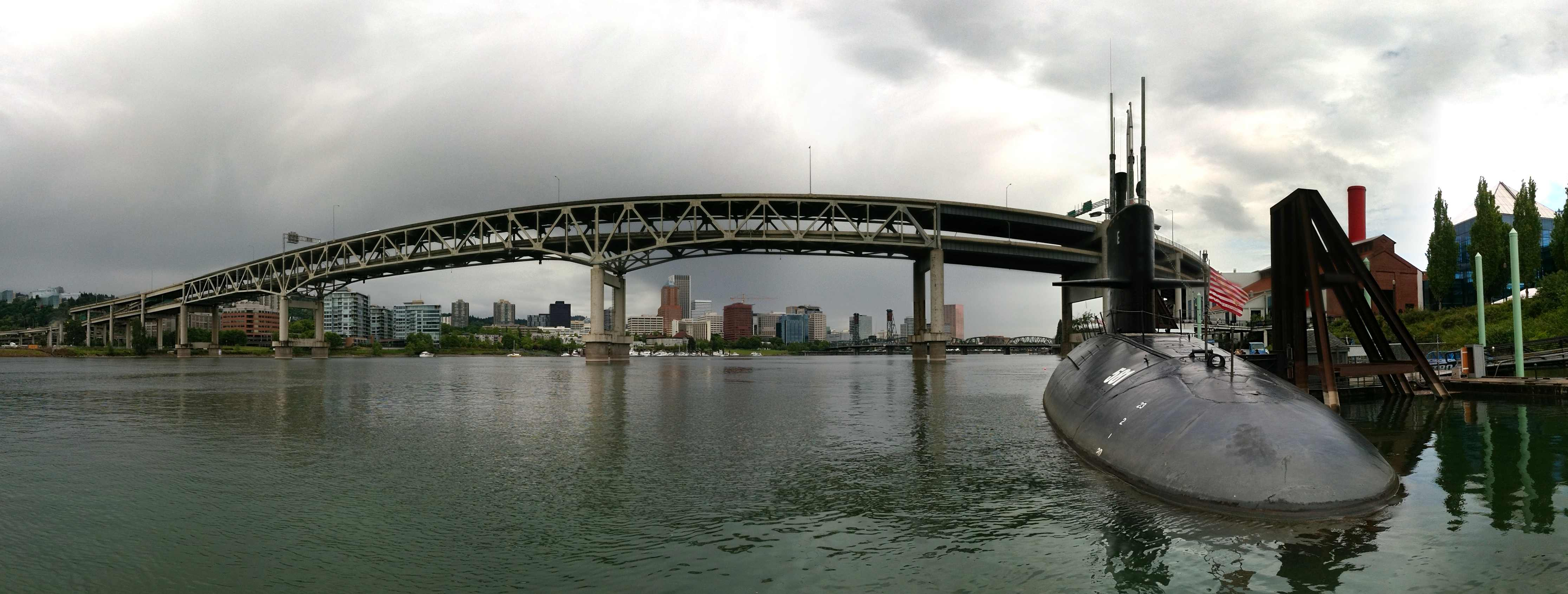 USS Blueback (SS-581) moored on the Willamette River in Portland, Oregon